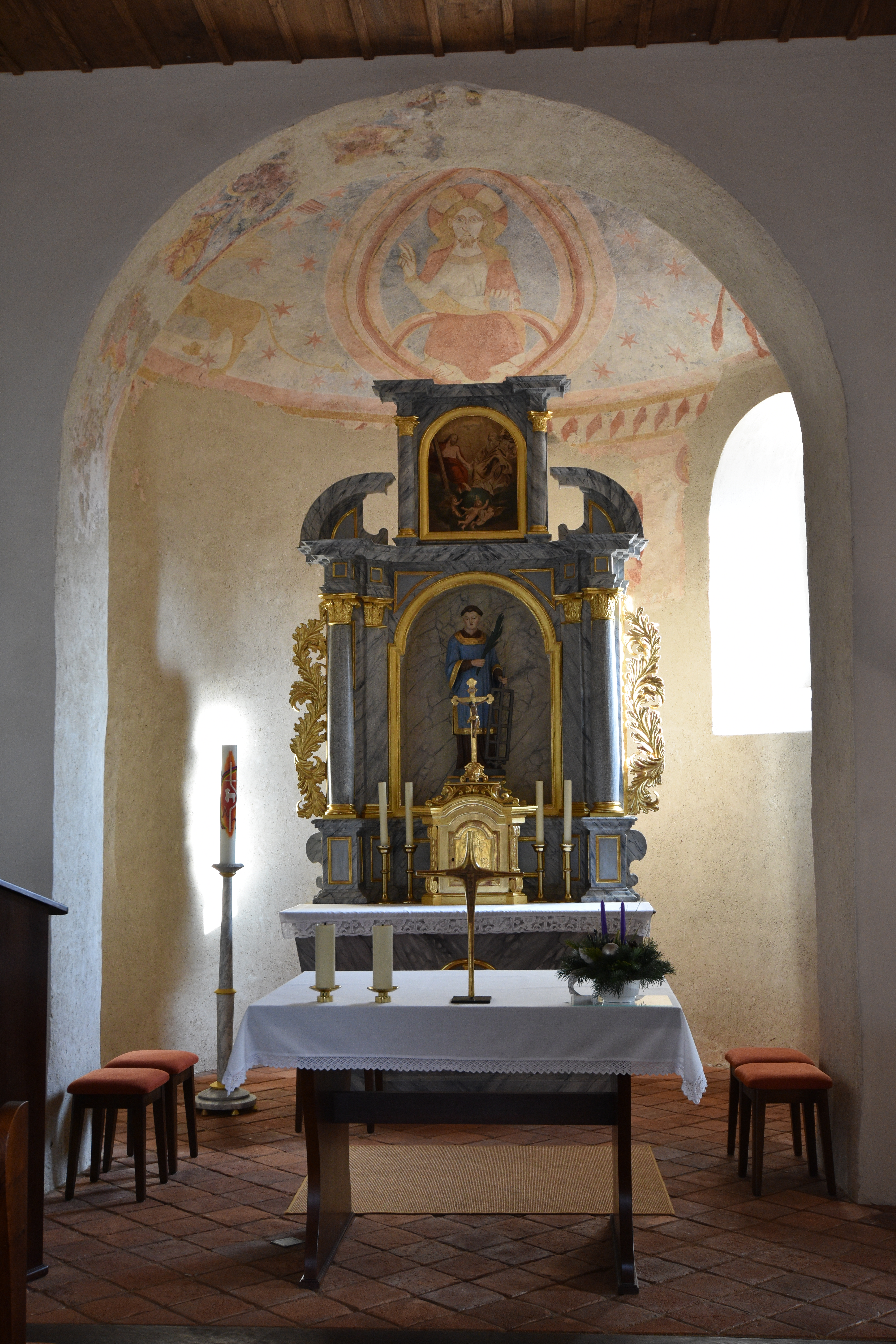 Church hl. Laurentius, Zahling Interior